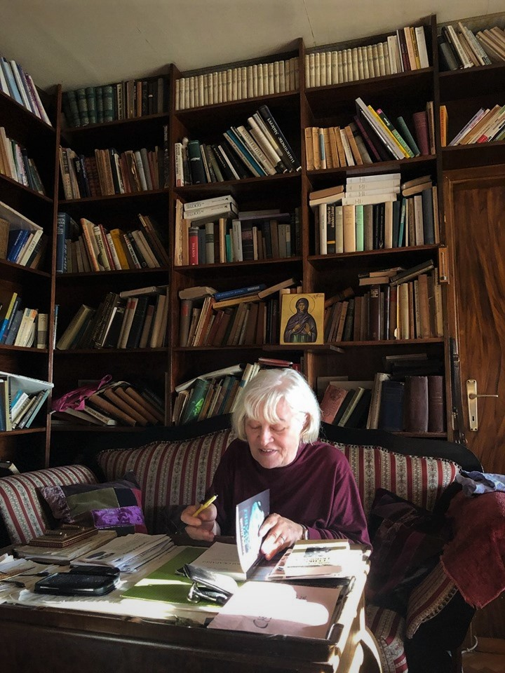 Milka Lučić Gluščević, wife of Zoran Gluščević, in front of their library. The library is now part of their legacy in the Society for Culture, Art and International Cooperation Adligat in Belgrade, Serbia. Српски (ћирилица): Милка Лучић Глушчевић, супруга Зорана Глушчевића, испред њихове библиотеке - сада легата у Удружењу за културу, уметност и међународну сарадњу „Адлигат” у Београду.